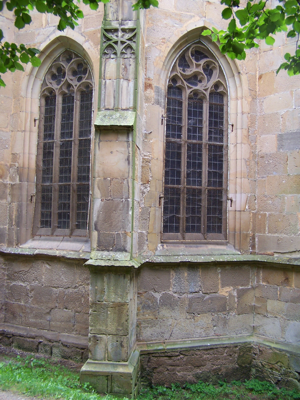 Details at the windows of the Liborius chappel.